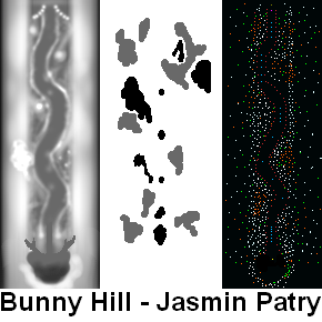 Bunny Hill by Jasmin Patry (Extreme Tux Racer version) - Montage of the map files (elev.png, terrain.png and trees.png)